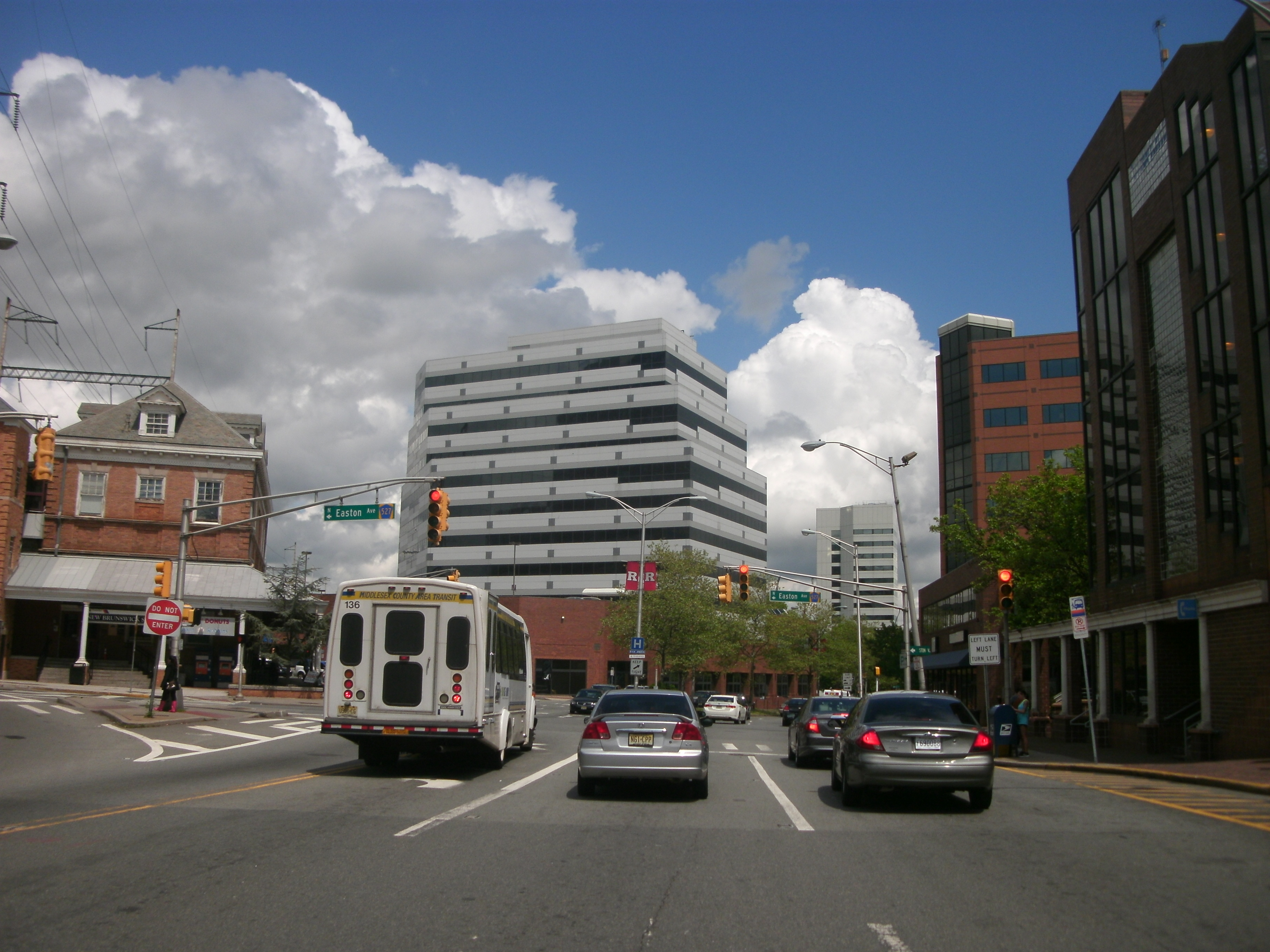 NJ 27 through the city of New Brunswick, New Jersey.